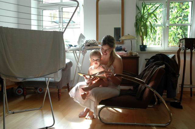 A mother reading to her daughter at home in Munich